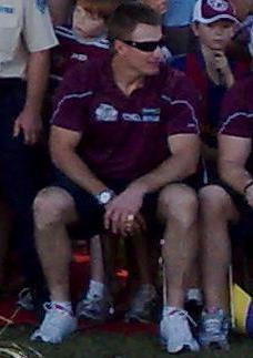 Manly Sea Eagles 2008 Victory Celebration